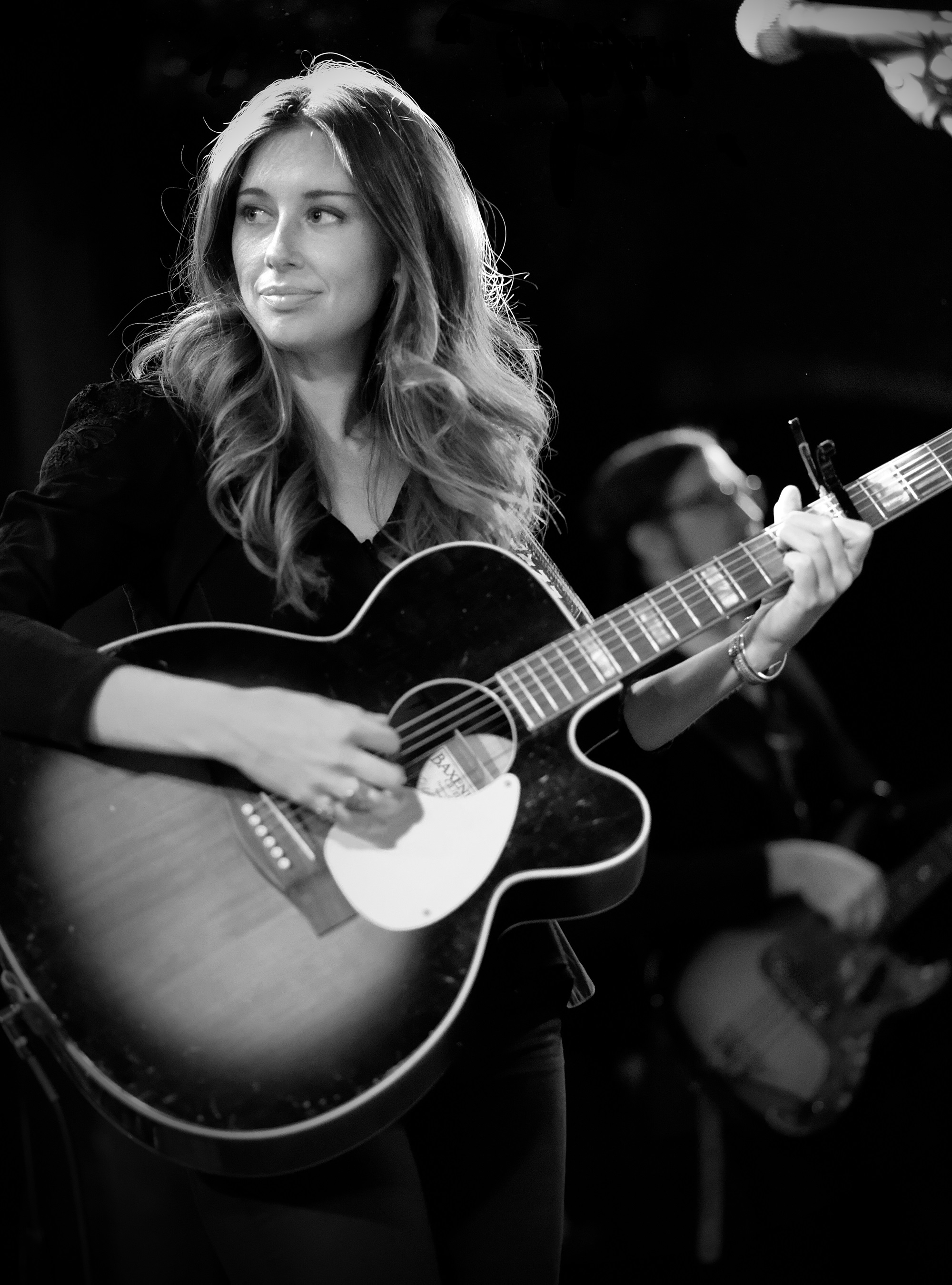 Lera Lynn at The Troubadour L.A. in 2015